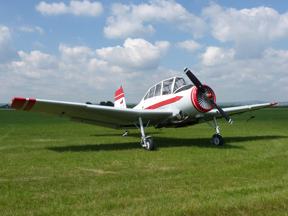 Zlin Z-37A C3 Cmelak OK-HYA